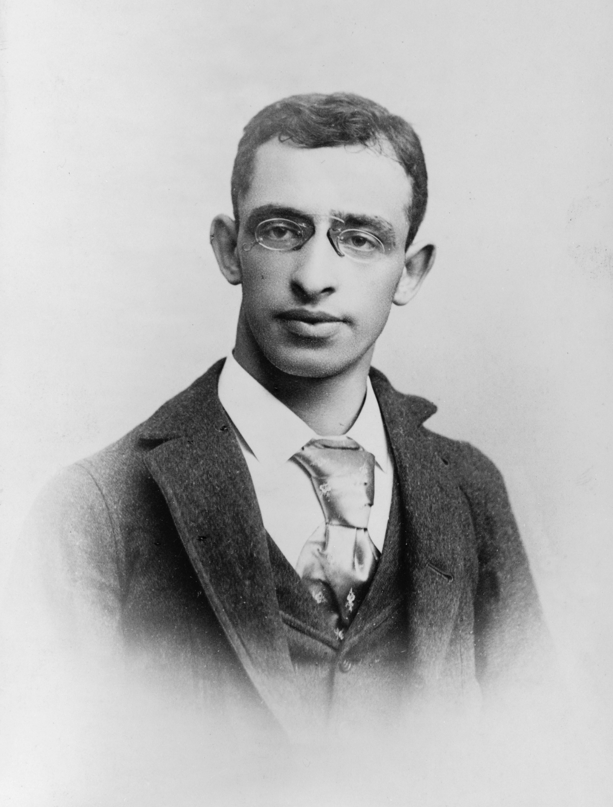 Alexander Berkman, head-and-shoulders portrait, facing front